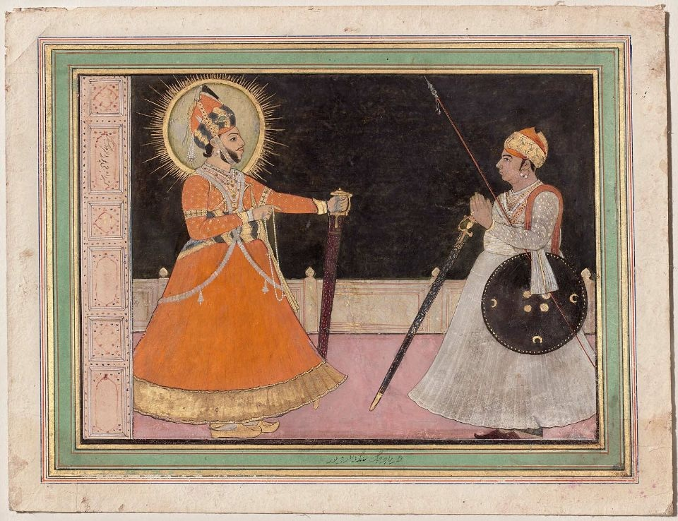 Maharaja Jagat Singh of Jaipur with an Officer 1810 Jaipur. Boston MFA